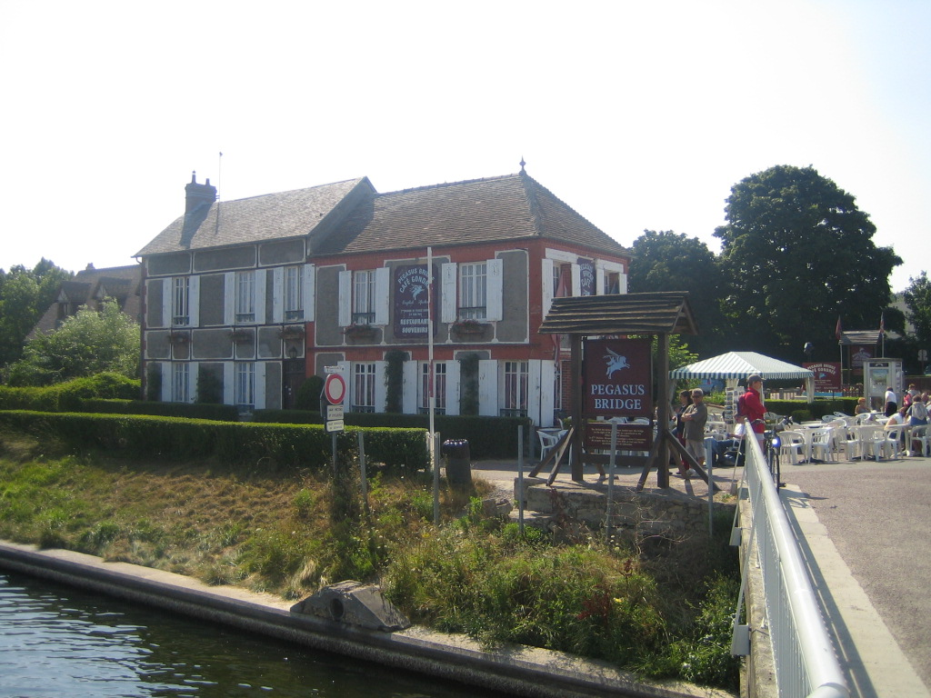 Pegasus Cafe in 2005. 'First House to be liberated' in June 1944. Photo taken by SiMCard25 in July 2005.